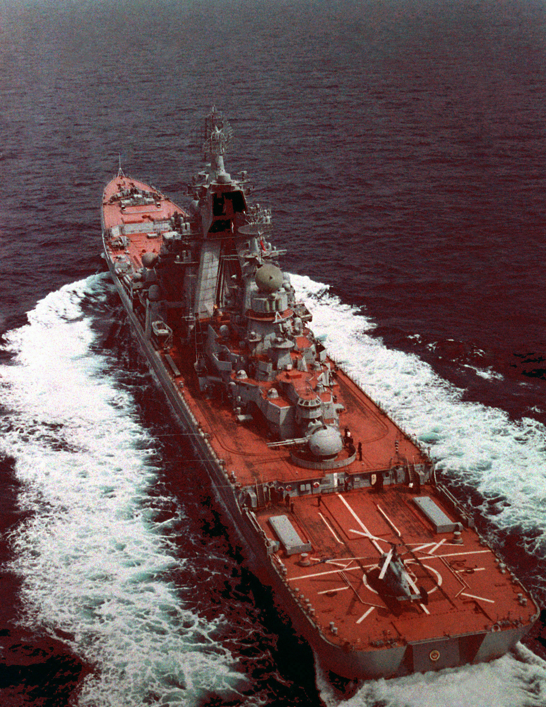 A port quarter view of the Soviet Kirov Class Nuclear-powered Guided Missile Cruiser underway.